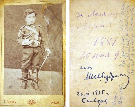 Mihail Gerdzhikov by Georgi Danchov, 1881